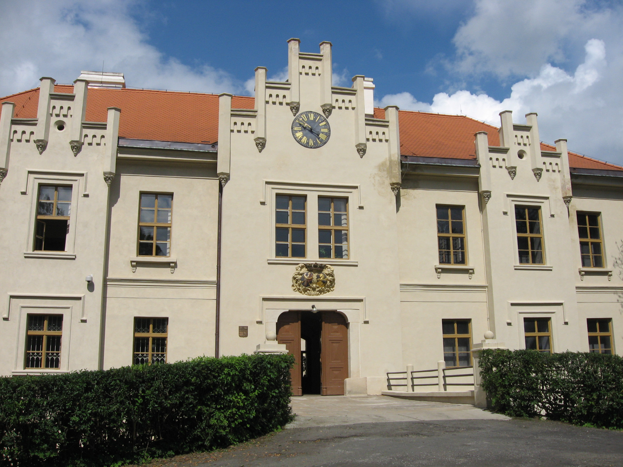 Castle Hradiště (Blovice)